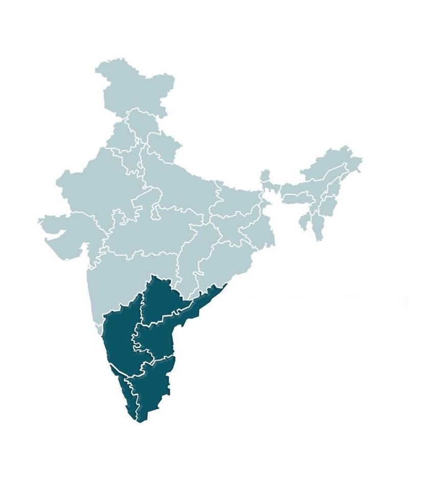 Dravida nadu